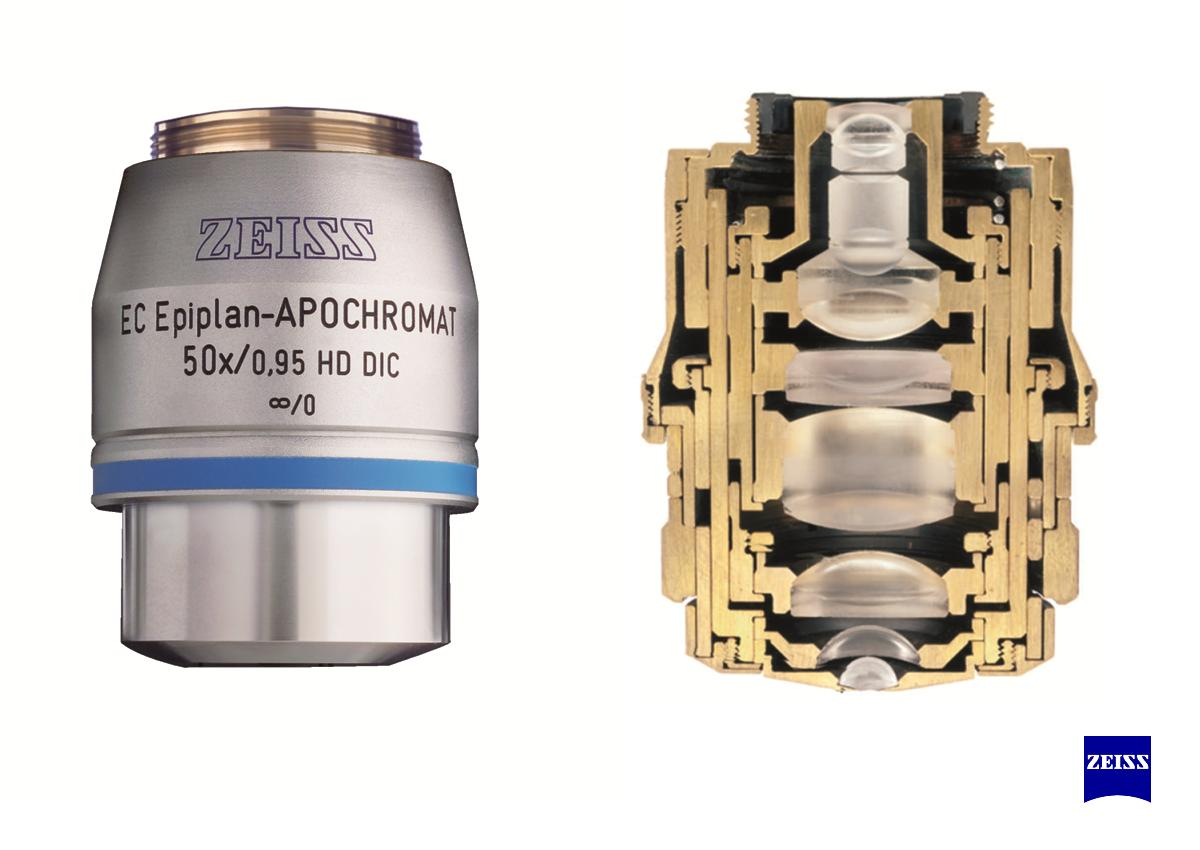 Microscope objectives by ZEISS: When your research pushes the boundaries, optical performance counts. Excellence and precision in optics since 1846. For more info visit